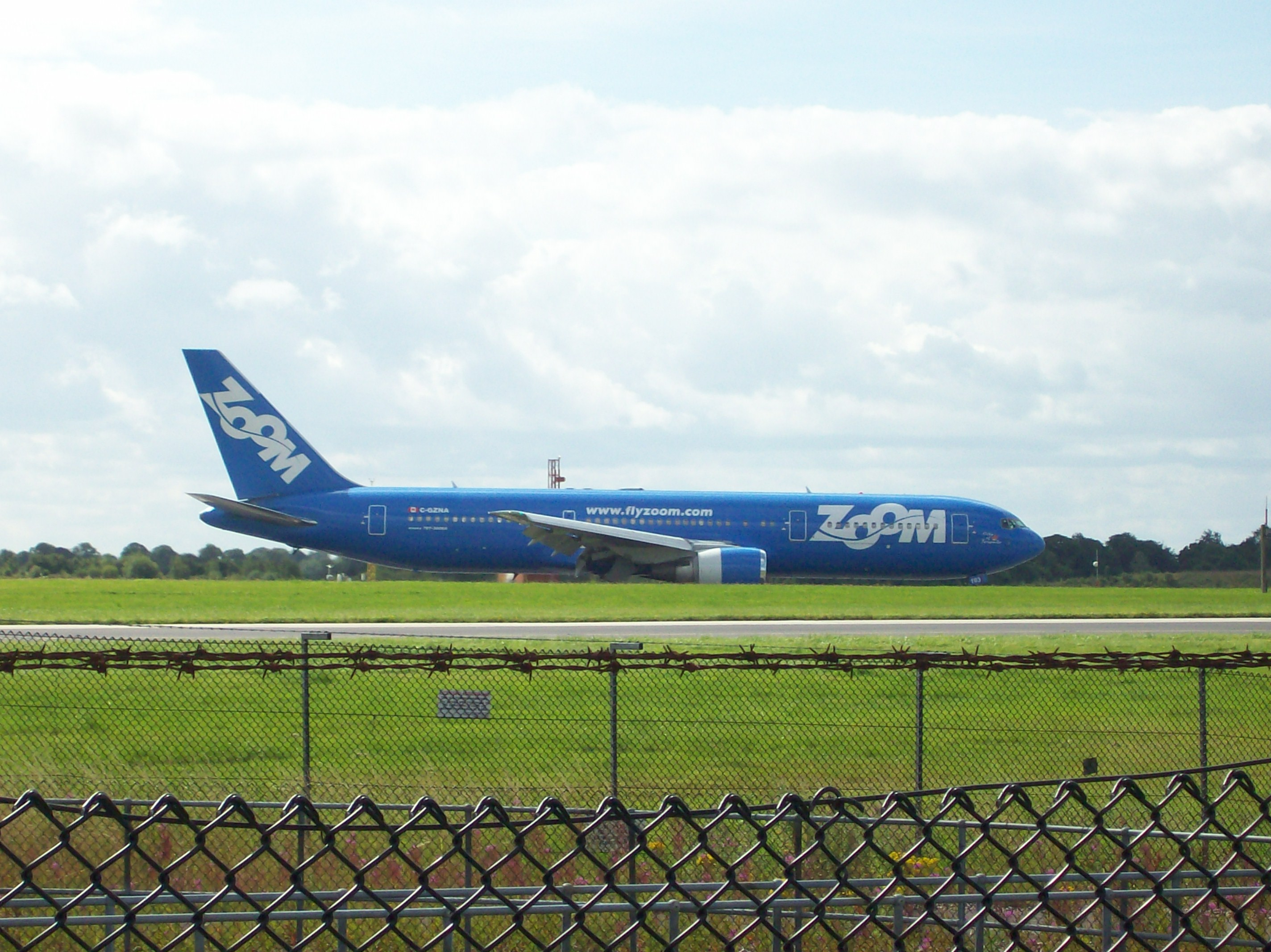 A Zoom Airlines Boeing 767-300 (C-GZNA) at Manchester Airport